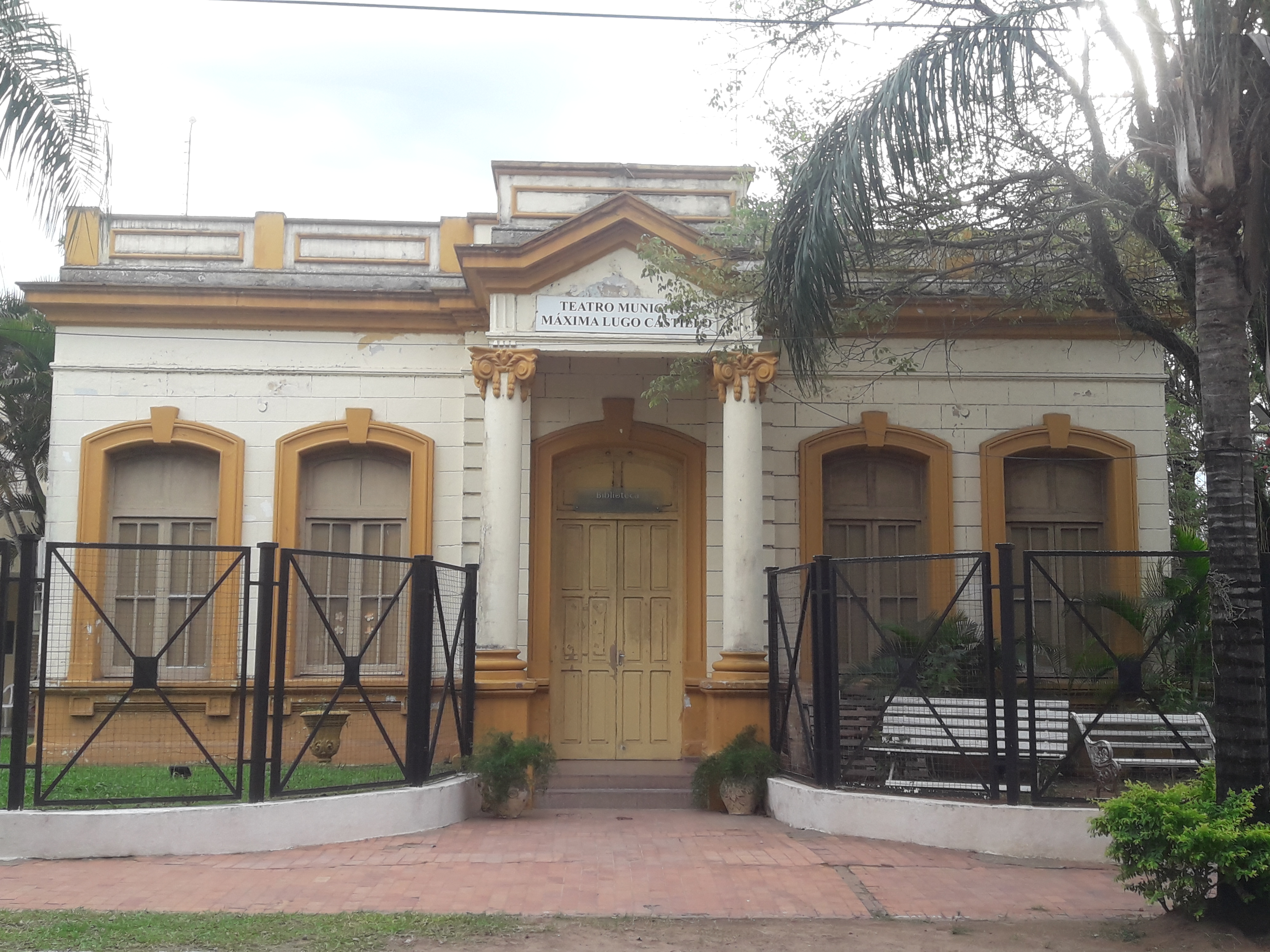 Teatro Villeta